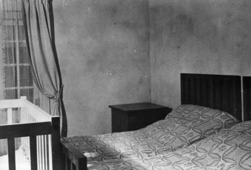 Interior of German Village, Dugway Prooving Ground, Utah. The village was created in order to perfect firebombing techniques on German residential areas in WW II